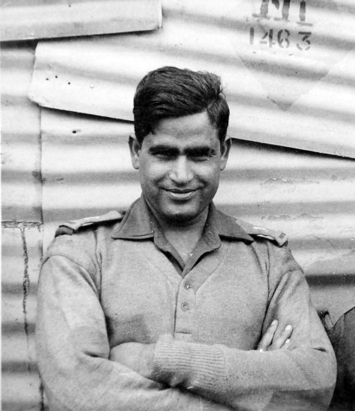 Kirori Singh Bainsla when he was a major in the army , circa 1972